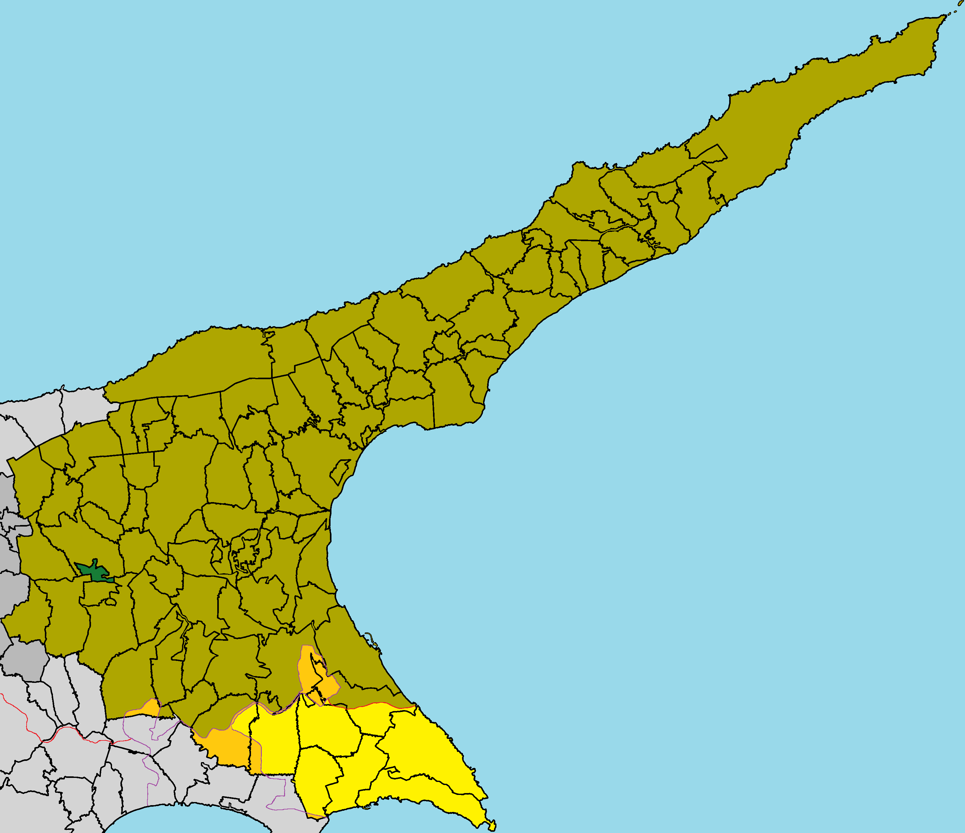 Mousoulita in Famagusta District (de jure).